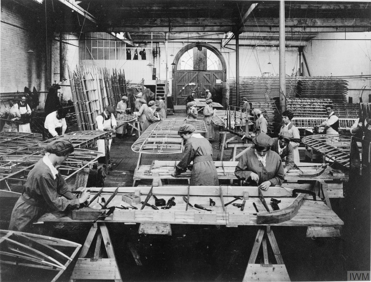 The Employment of Women in Britain, 1914-1918 Female workers assembling and screwing elevators and ailerons in an aircraft factory.